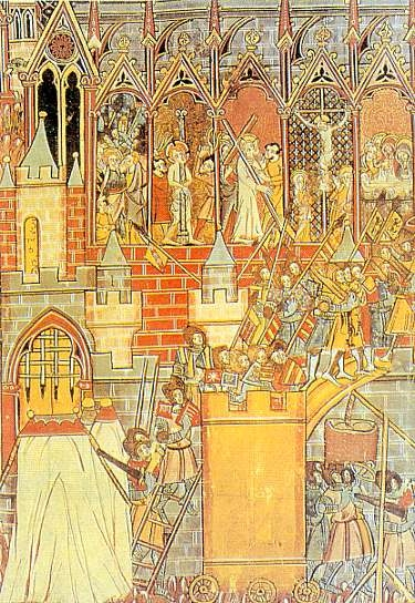 The conquest of Jerusalem in the First Crusade (1099). Illustration from a ms. of Guillaume de Tyr, Histoire d'Outremer, Bibliothèque municipale, Lyon